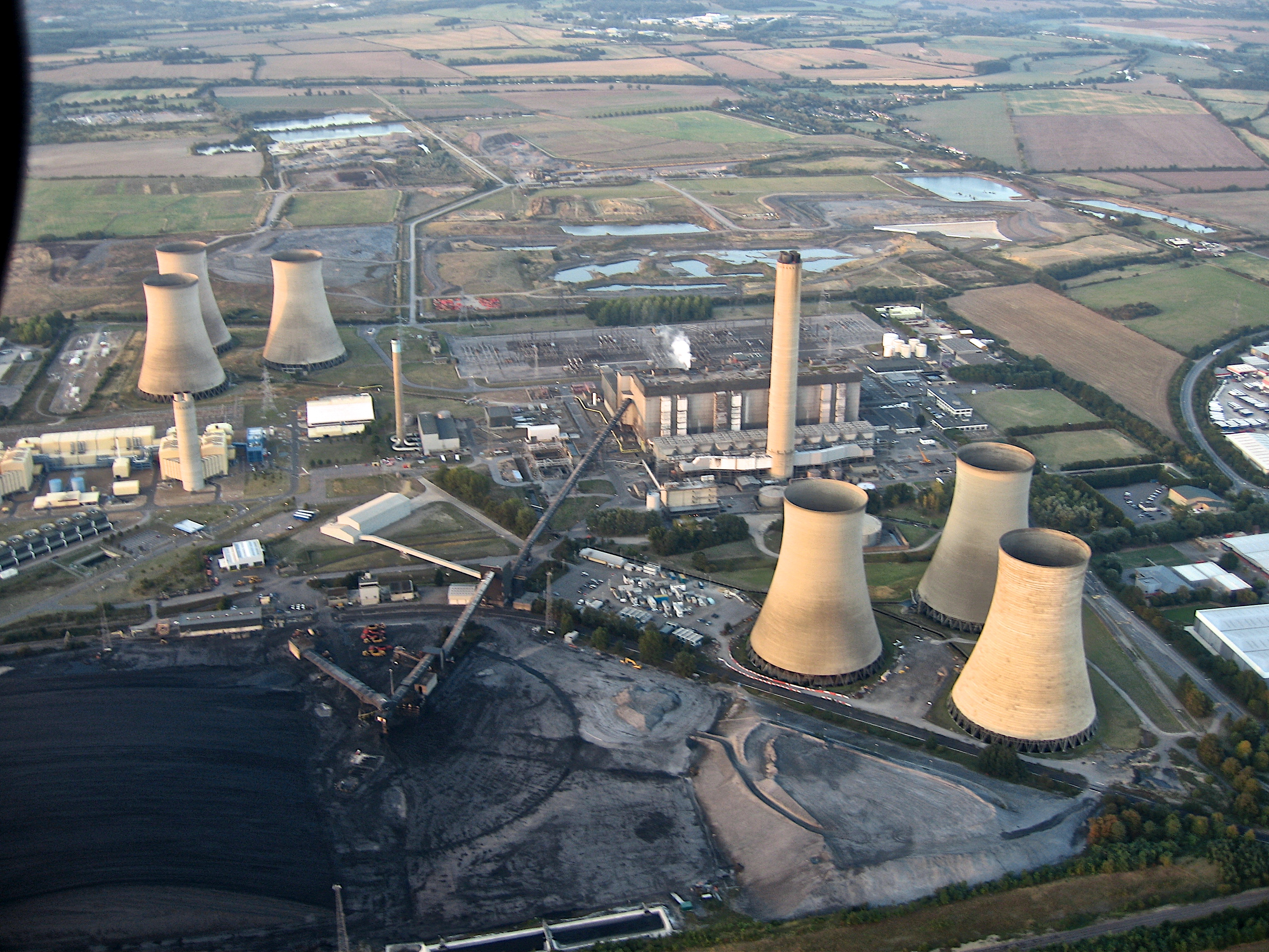 Aerial view from Paramotor of Didcot Power Station, Oxfordshire, England. Taken from 1300' agl.